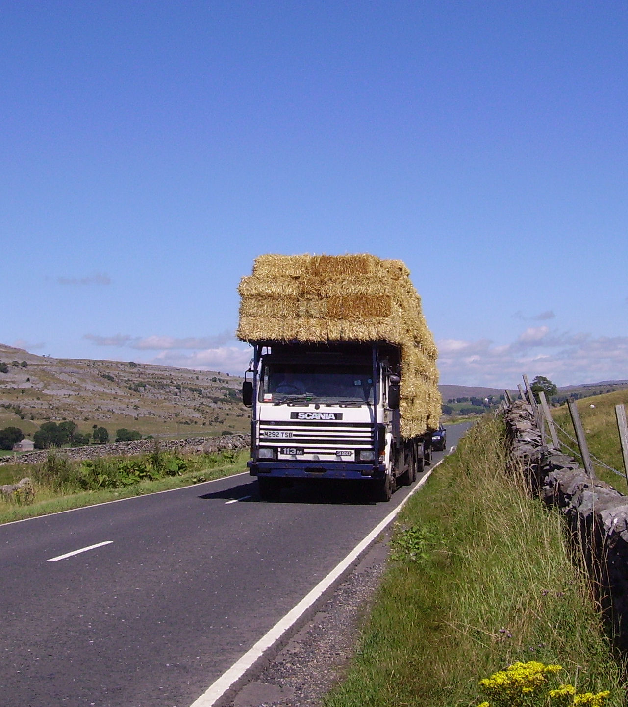 view of the Yorkshire Dales, United Kingdom